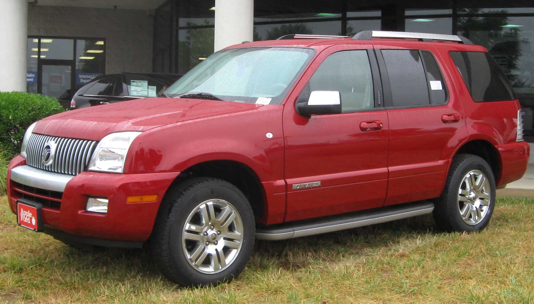 2010 Mercury Mountaineer photographed in Columbia, Maryland, USA.